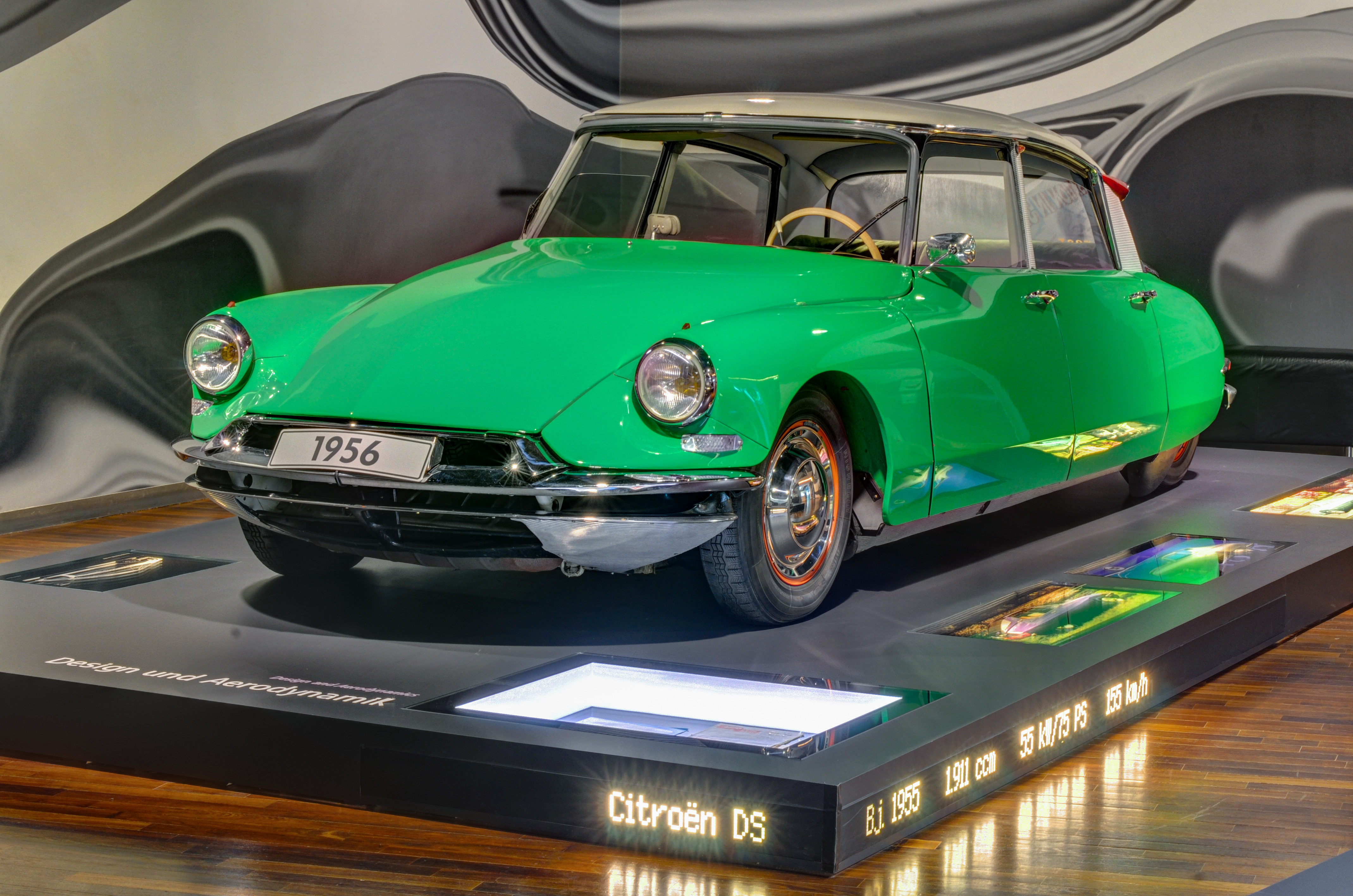 Citroën DS, 1956, 1911 cm3 engine displacement, 55 kW / 75 PS, 155 km/h.